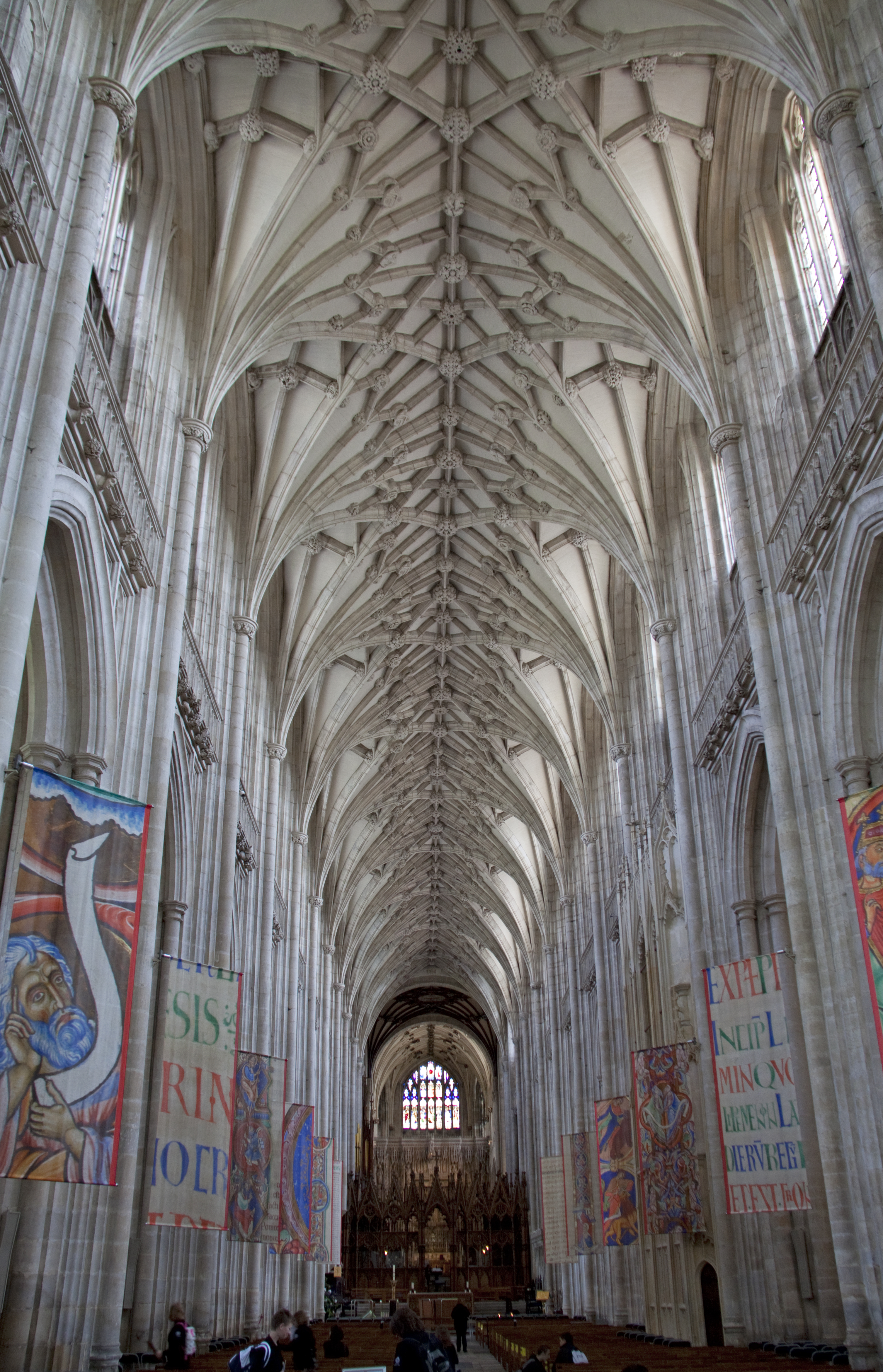 Winchester Cathedral 1